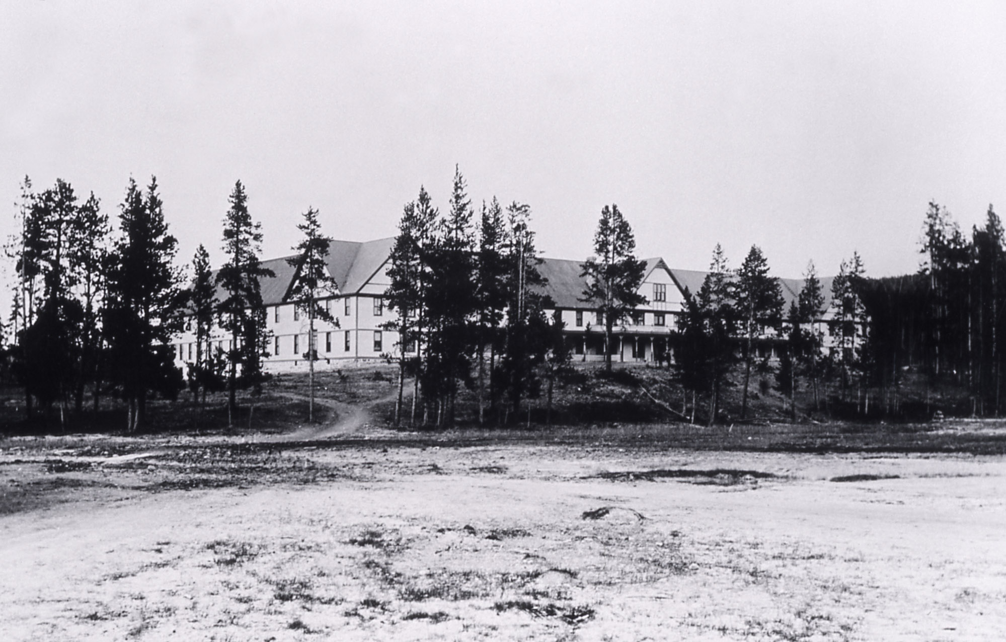 Fountain Hotel, Yellowstone National Park, ca 1910 photo by Frank Jay Haynes